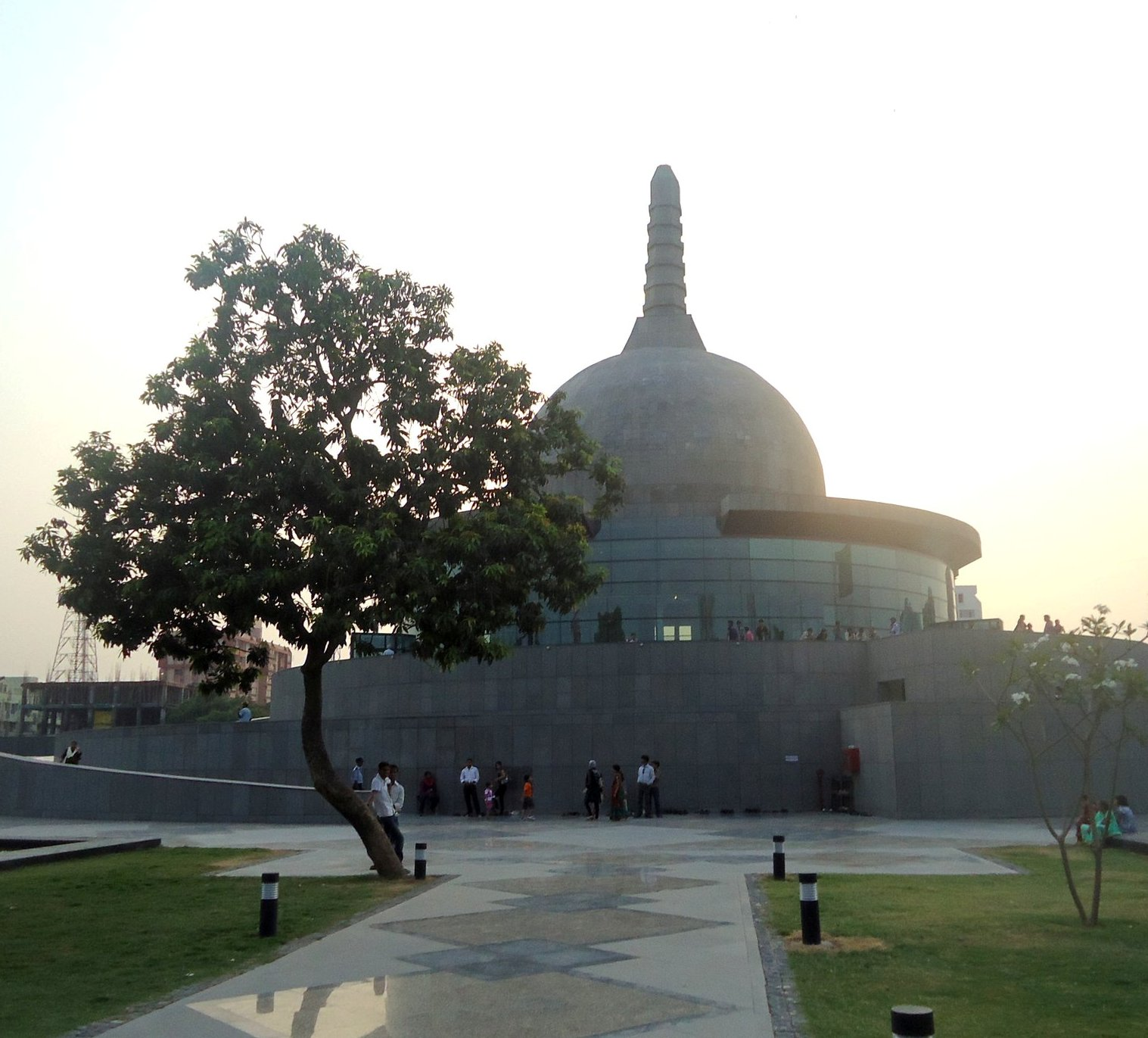 Buddha Memorial Park,is newly developed park in Patna.It's in the memory of Lord Buddha.